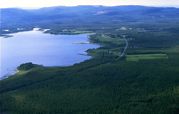 Manjärv lake and village in Älvsbyns municipality, Norrbotten county, Sweden